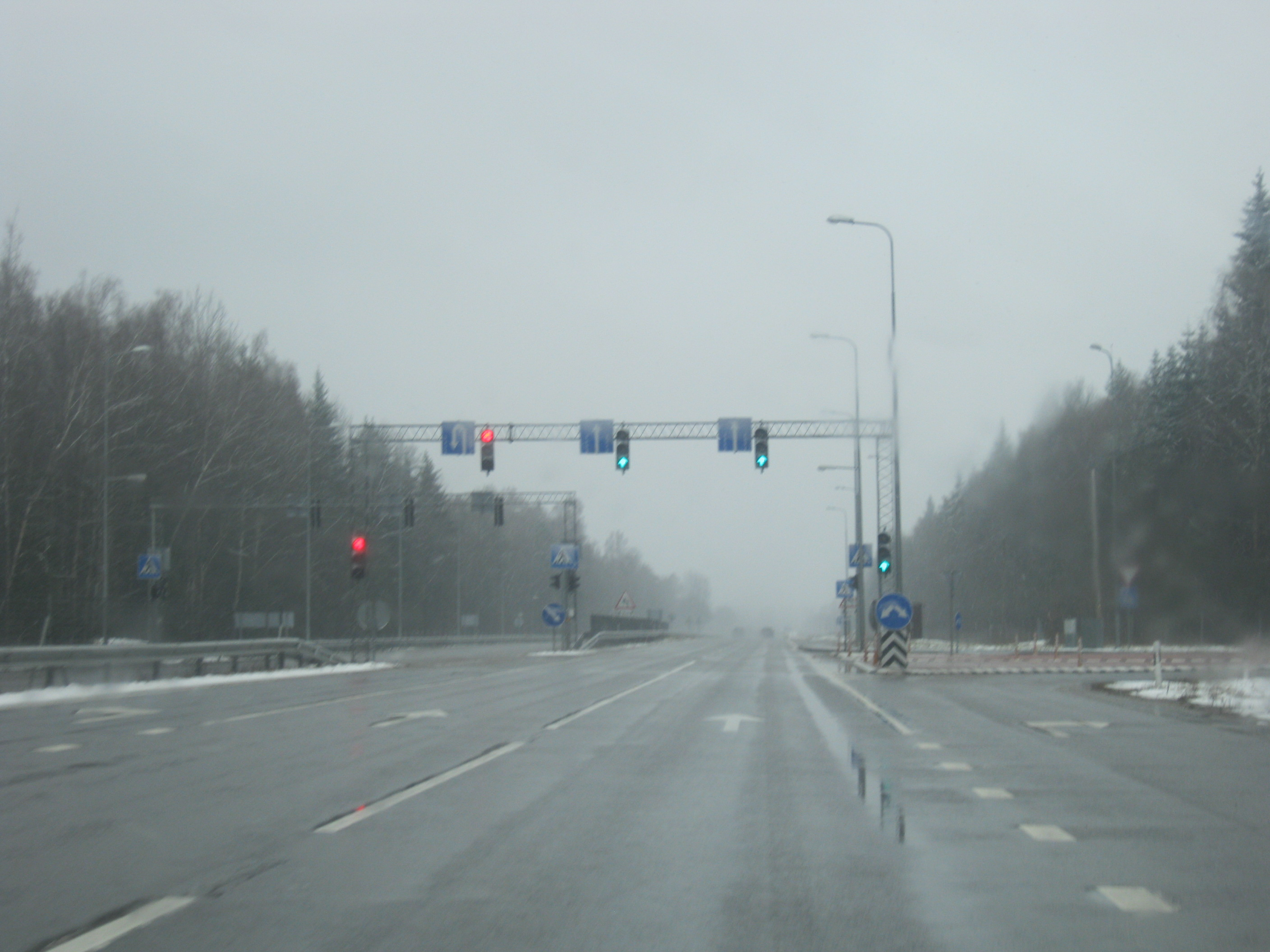 Jonava district.